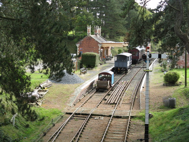 Fencote Station Part of the Bromyard-Leominster line closed in 1952 (though not lifted until 1959), Fencote station was derelict until 1980. Since then it has been superbly restored by a former railway employee and features a selection of rolling stock and railway artefacts. The site is strictly private.